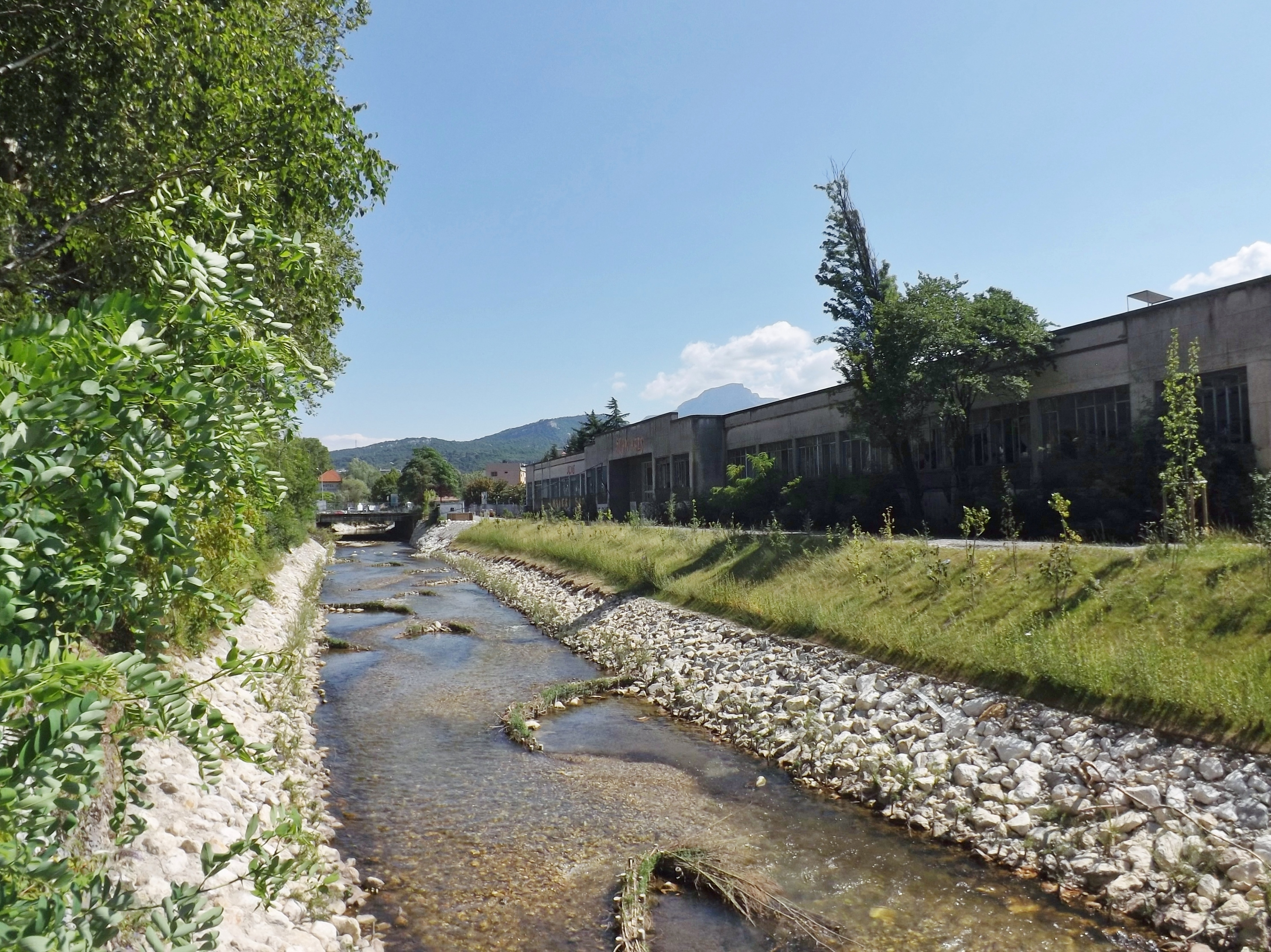 Sight of the Leysse river during its low water level of summer, here passing in Chambéry, Savoie, France.